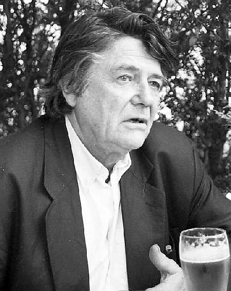 "Tom Cruise and Kevin Costner are bloody idiots and Depardieu is acting too much!.." Having a pint of beer with Jean-Pierre Mocky... special guest star ("Sous les Projecteurs" festival at Villandraut - Gironde - France on july 1995)